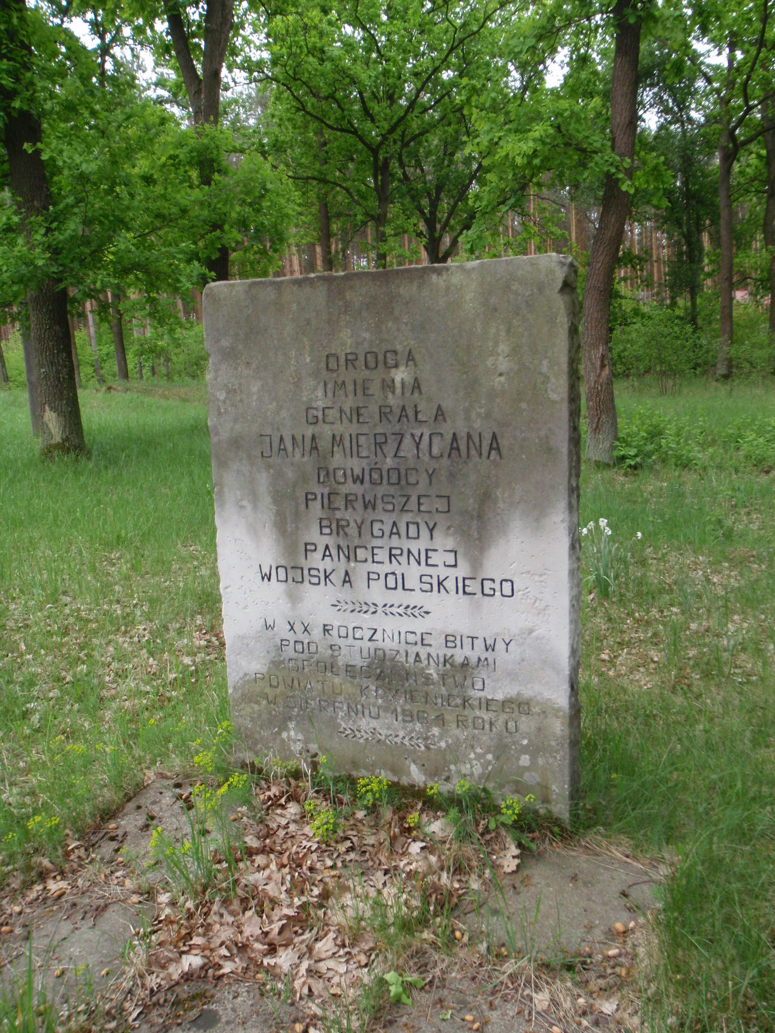 Stone commemorating Jan Mierzycan. Road between Ryczywół, Basinów and Studzianki Pancerne has his name.